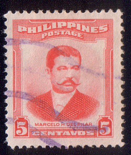 Philippines stamp picturing Marcelo H. Del Pilar issued in 1952.